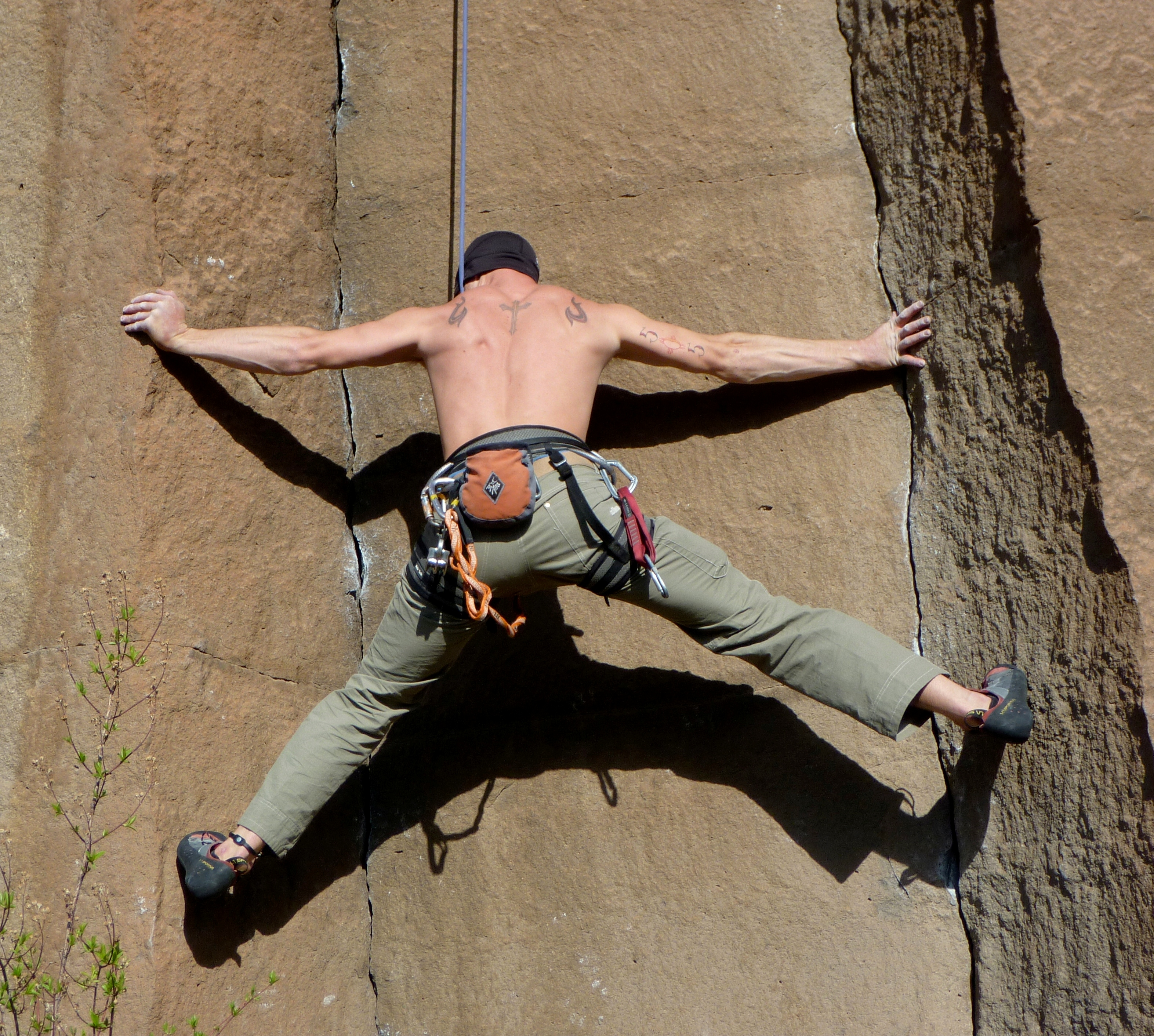 A climber stemming/bridging on a route at Trout Creek